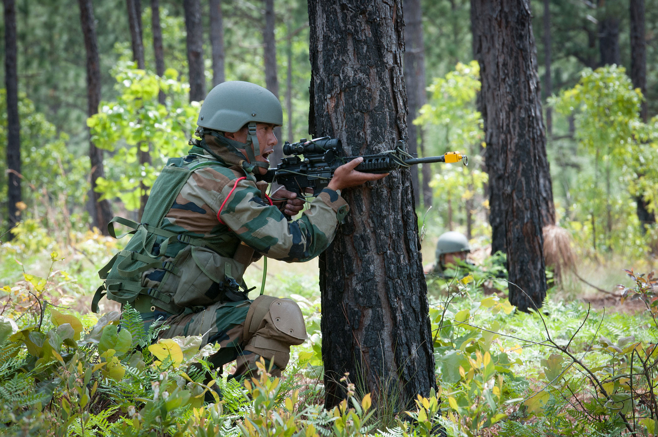 An Indian Army soldier with the 99th Mountain Brigade fires at role-playing insurgents during bilateral training with paratroopers of the 82nd Airborne Division's 1st Brigade Combat Team May 8, 2013, at Fort Bragg, N.C. The soldiers were participating in Yudh Abhyas, an annual training event between the Indian Army and United States Army Pacific to improve the ability of the forces involved to respond to a wide range of contingencies.